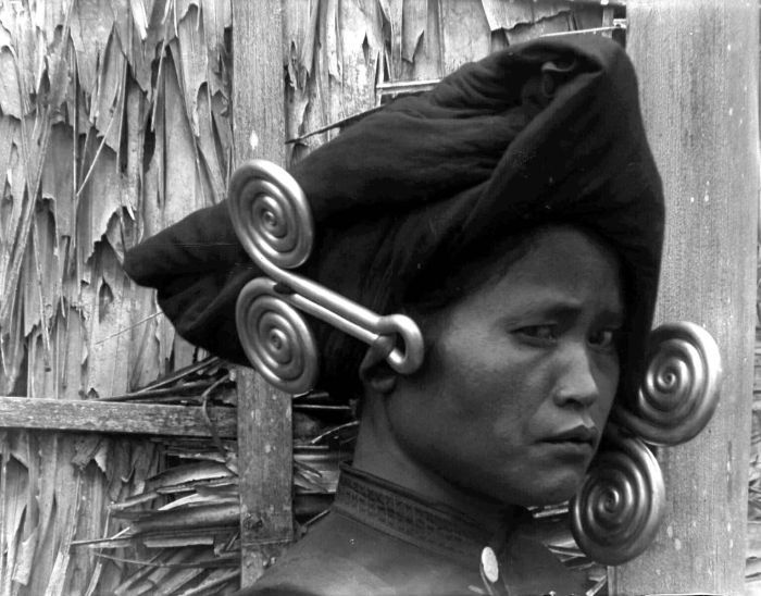 Karo-Batak woman with massive silver earjewels called padung padung, North-Sumatra